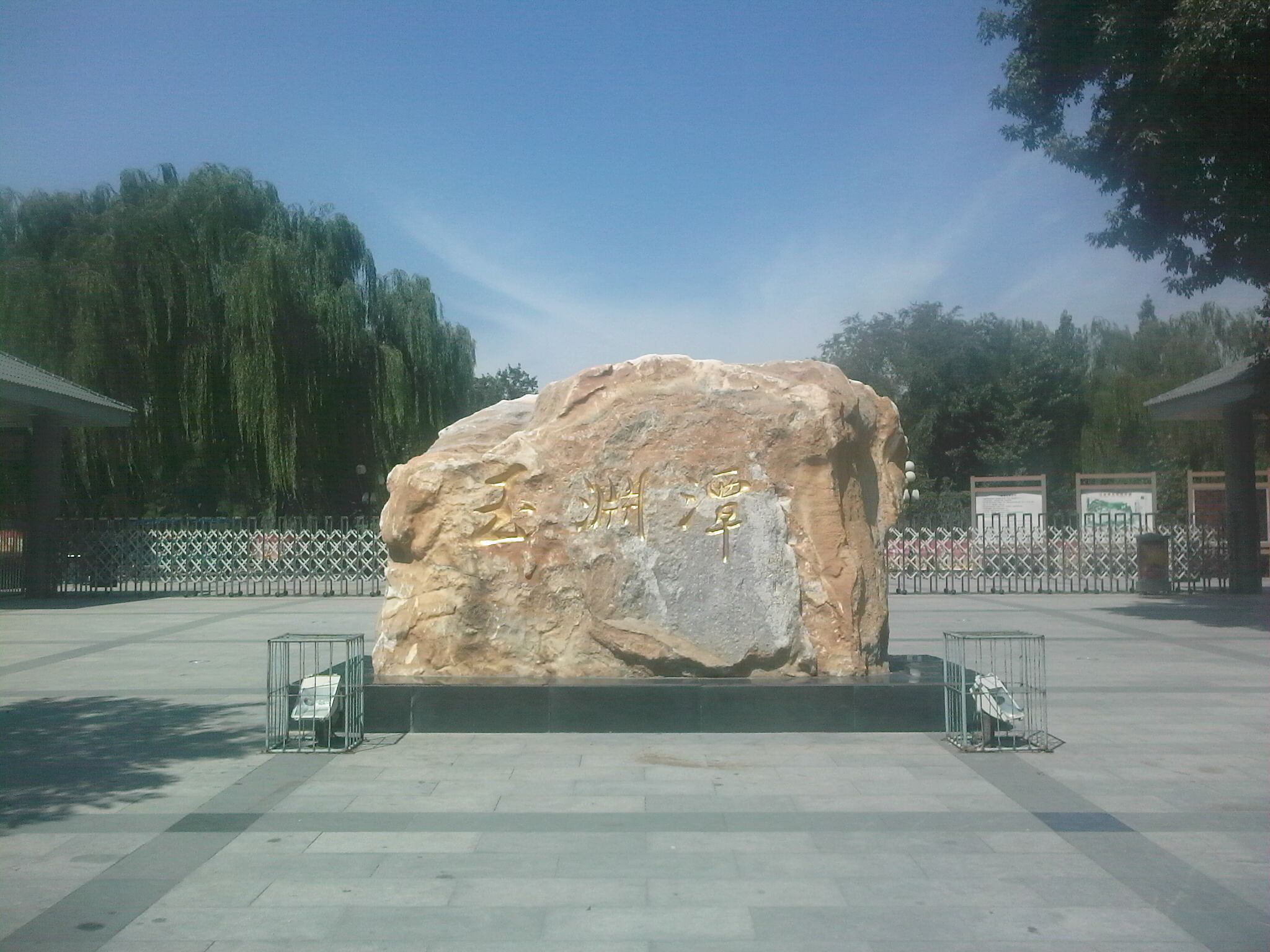 South Gate of Beijing Yuyuantan Park